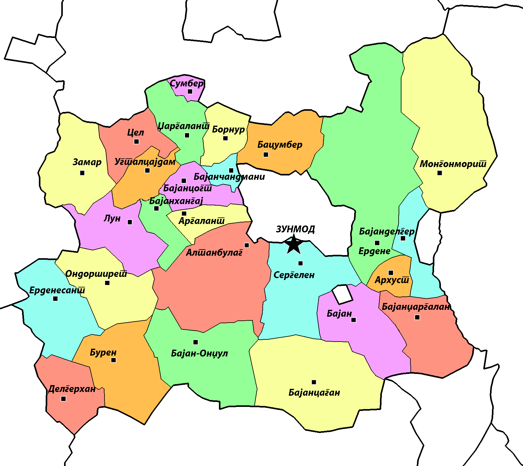 Translated map of Tov Sum into Macedonian language